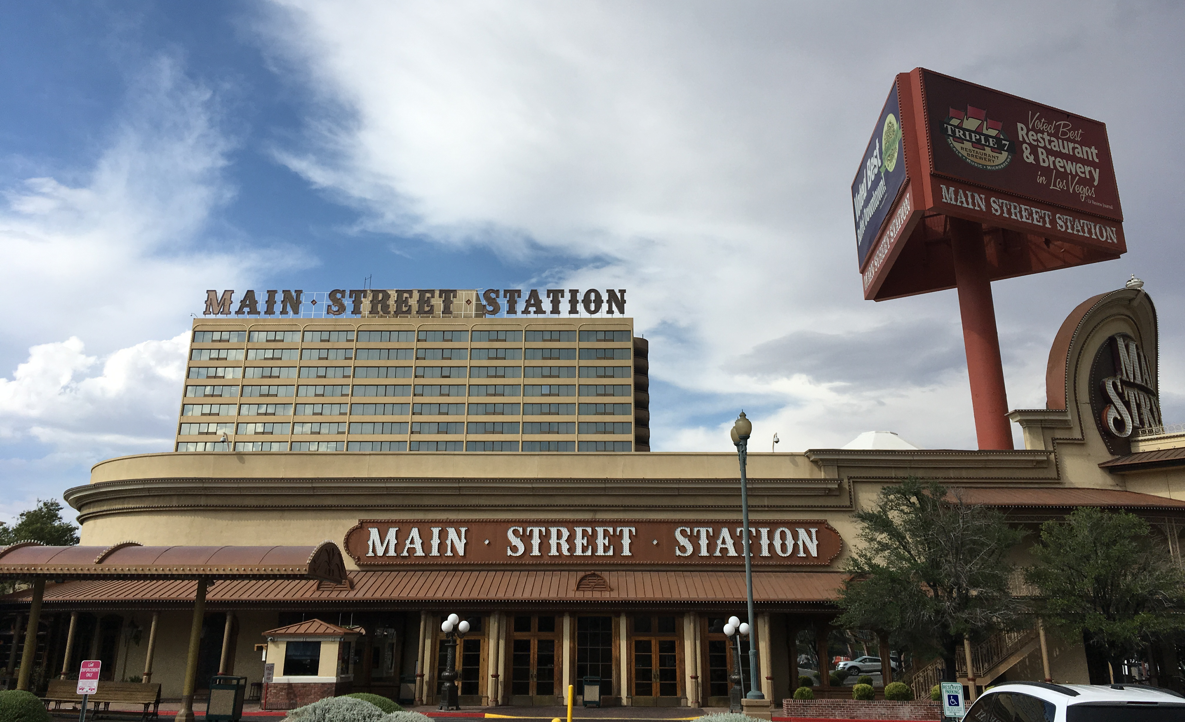 The Main Street Station Hotel and Casino and Brewery in Downtown Las Vegas